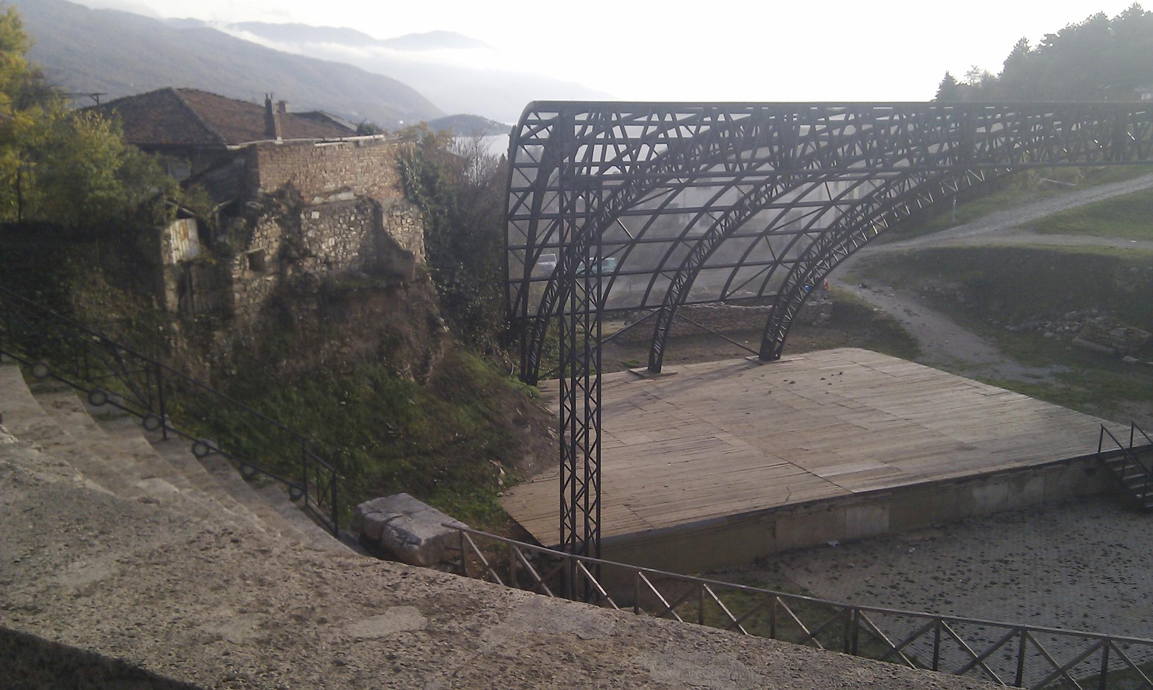 view on teatre